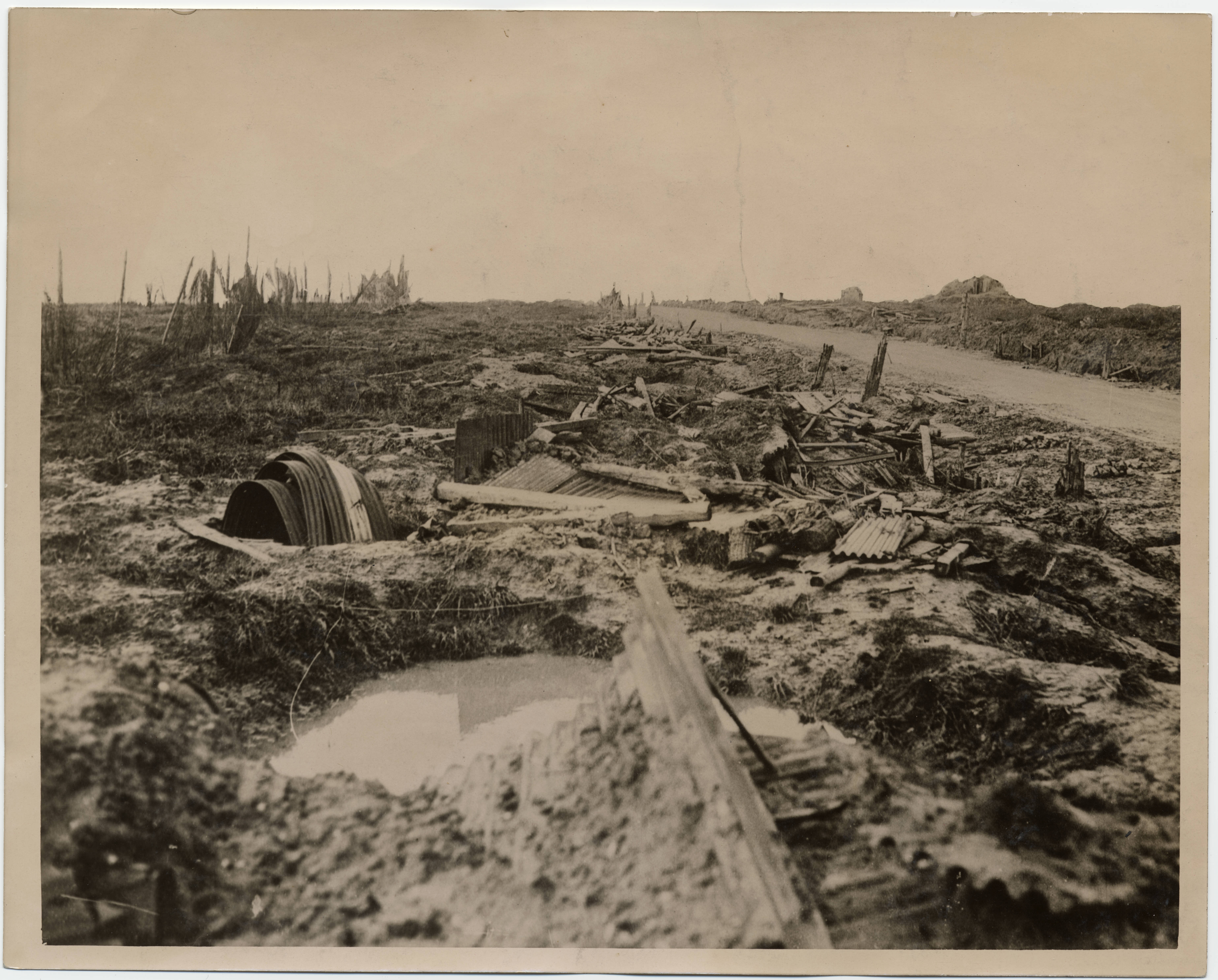 Item is a photograph from an album of World War One-related photographs in the William Okell Holden Dodds fonds. Brigadier General Dodds joined the Canadian Expeditionary Force in 1914 and was commanding officer of the 5th Canadian Division Artillery and served in France from 1917-1918.